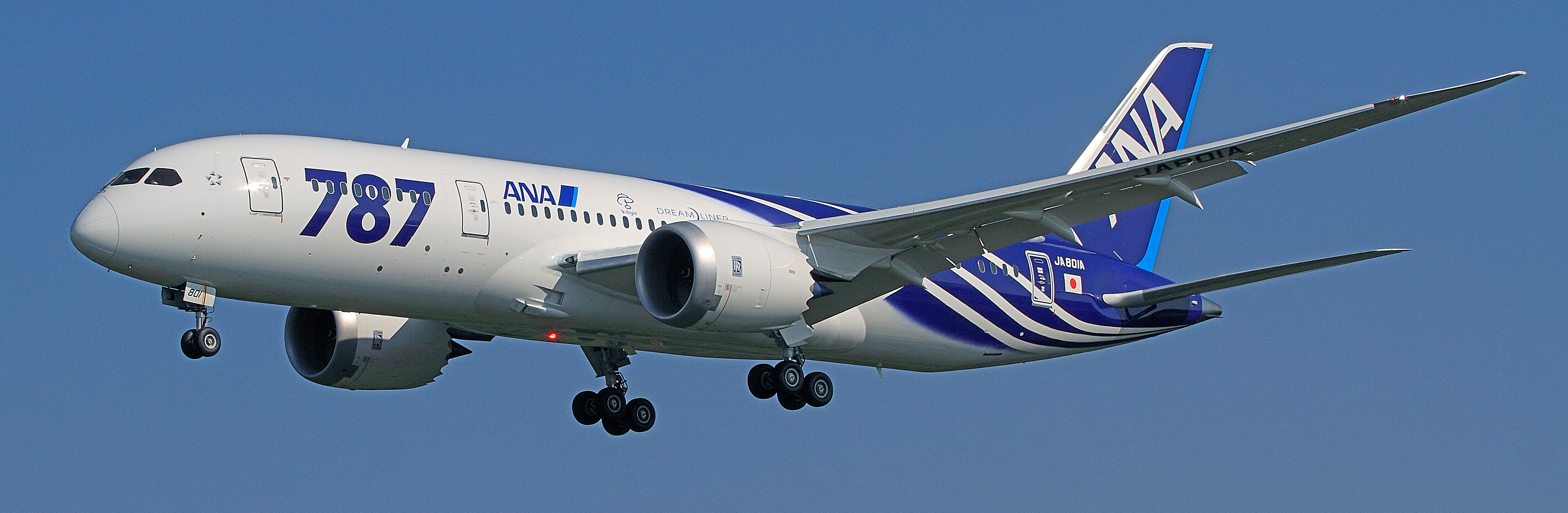 All Nippon Airways Boeing787-8(JA801A) at Okayama Airport